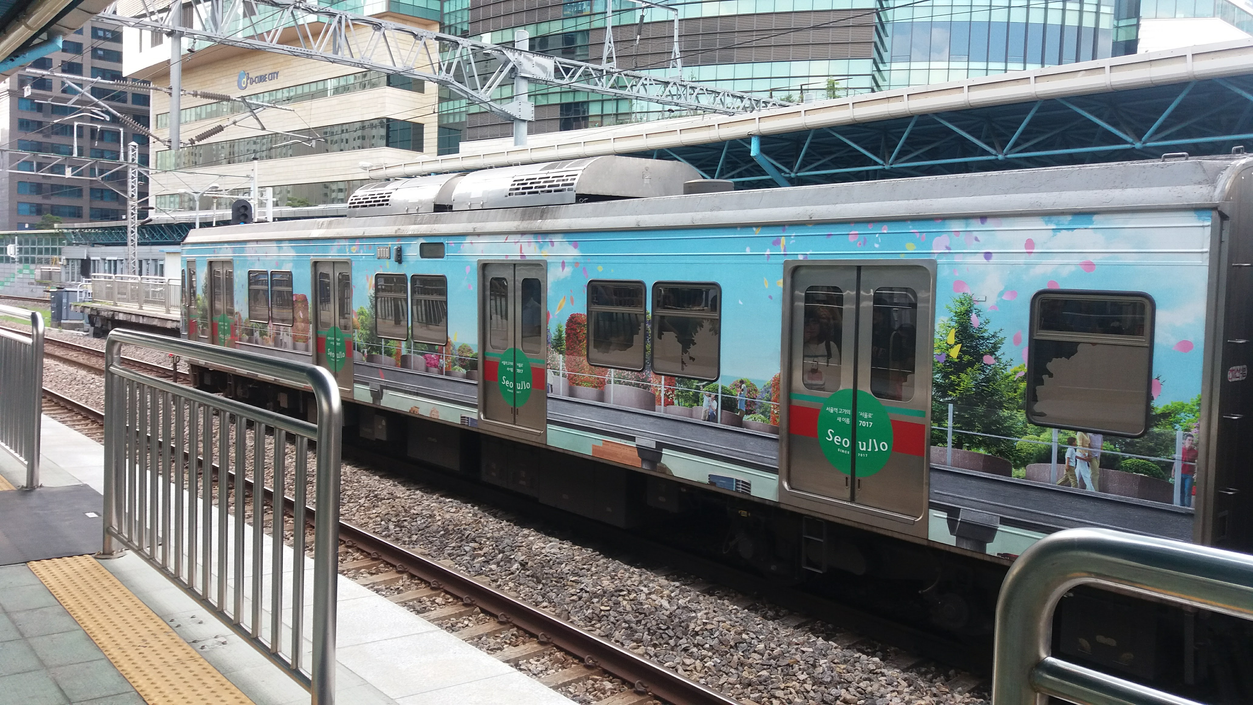 Seoul Metro Class 1000, with Seoullo painting